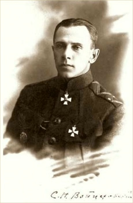 Gen. S. Wojciechowski (1883–1951) in the Crimea. Russia, 1920